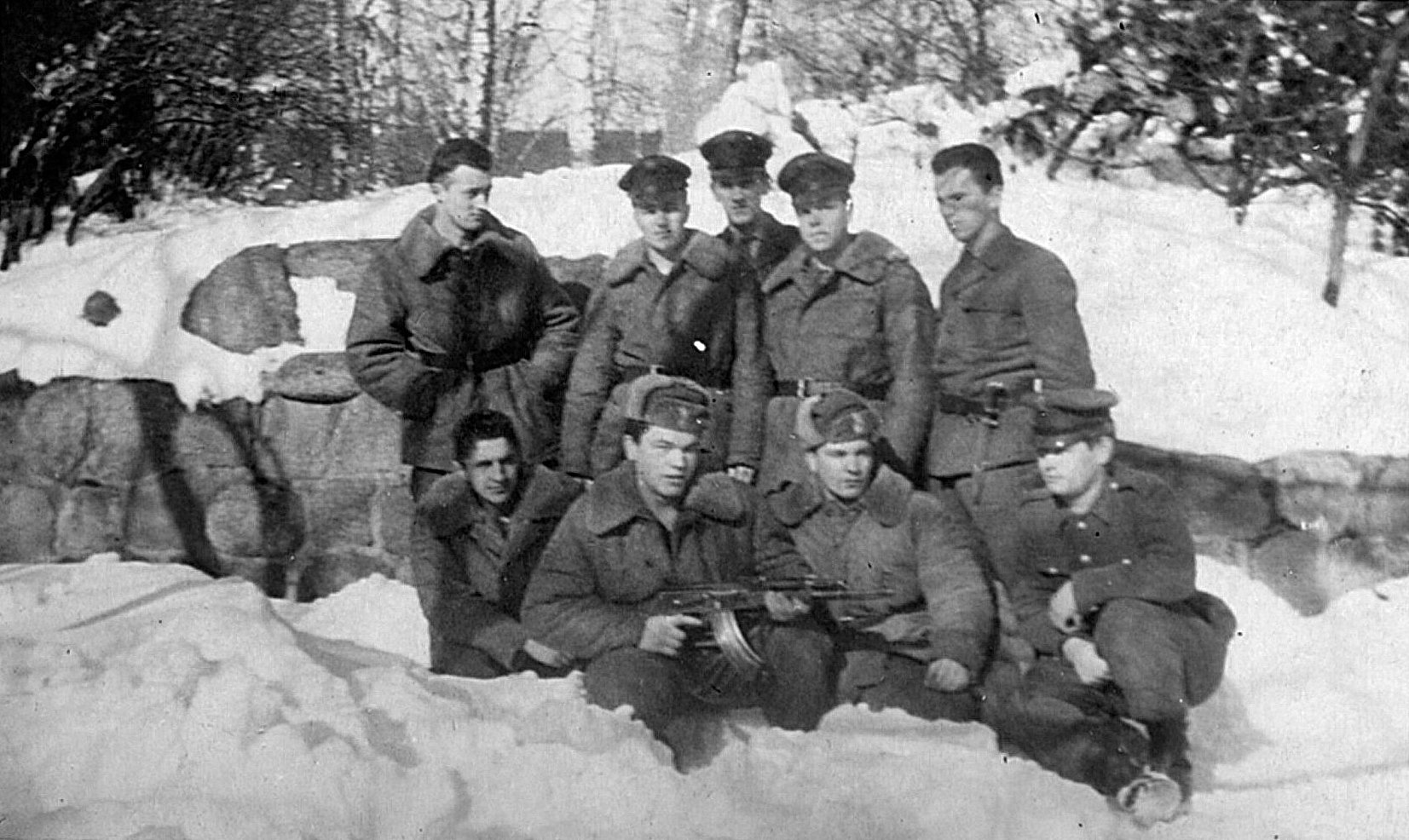 Border Protection Forces in Dźwirzyno